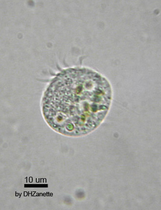 Halteria, Order: Oligotrichida